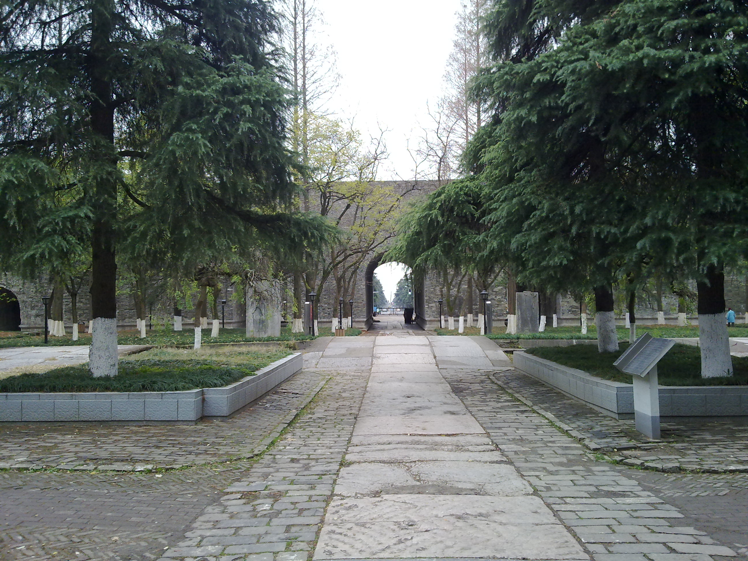 Wumen Gate of Nanjing Ming Palace